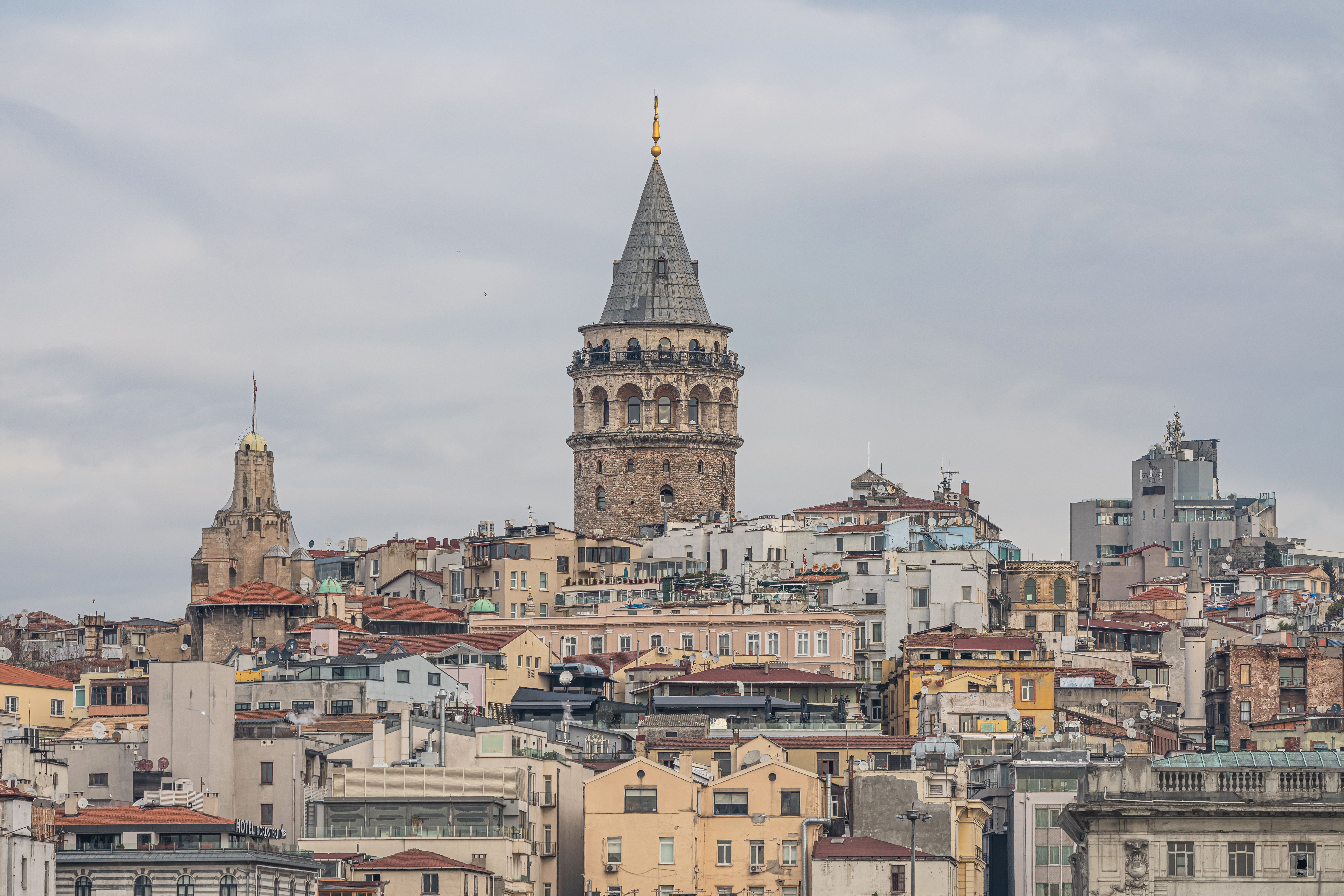 Remote view of Galata Tower in Istanbul, Turkey